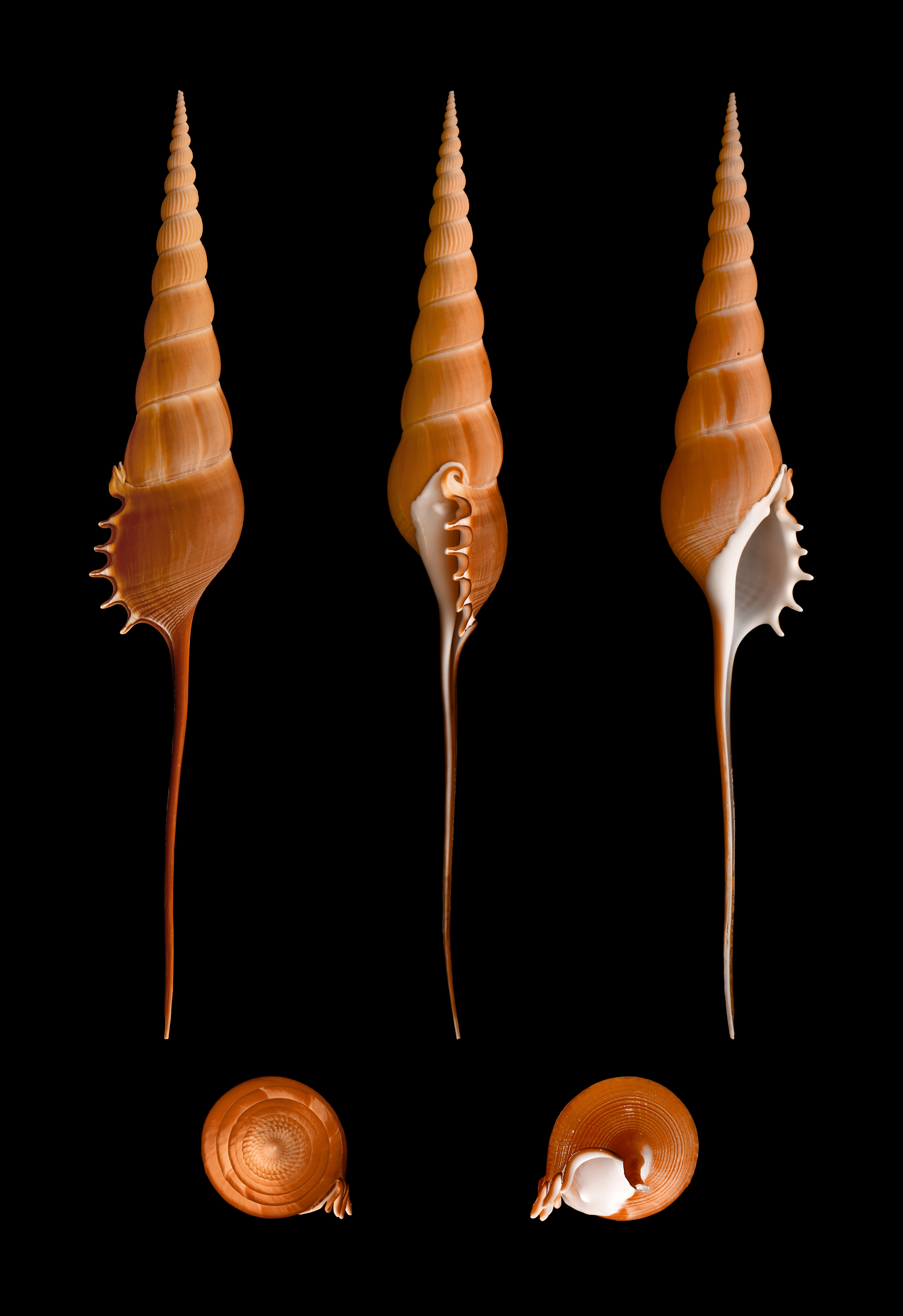 Shin-bone Tibia; Length 21.8 cm; Originating from the Philippines; Shell of own collection, therefore not geocoded. Dorsal, lateral (right side), ventral, back, and front view.